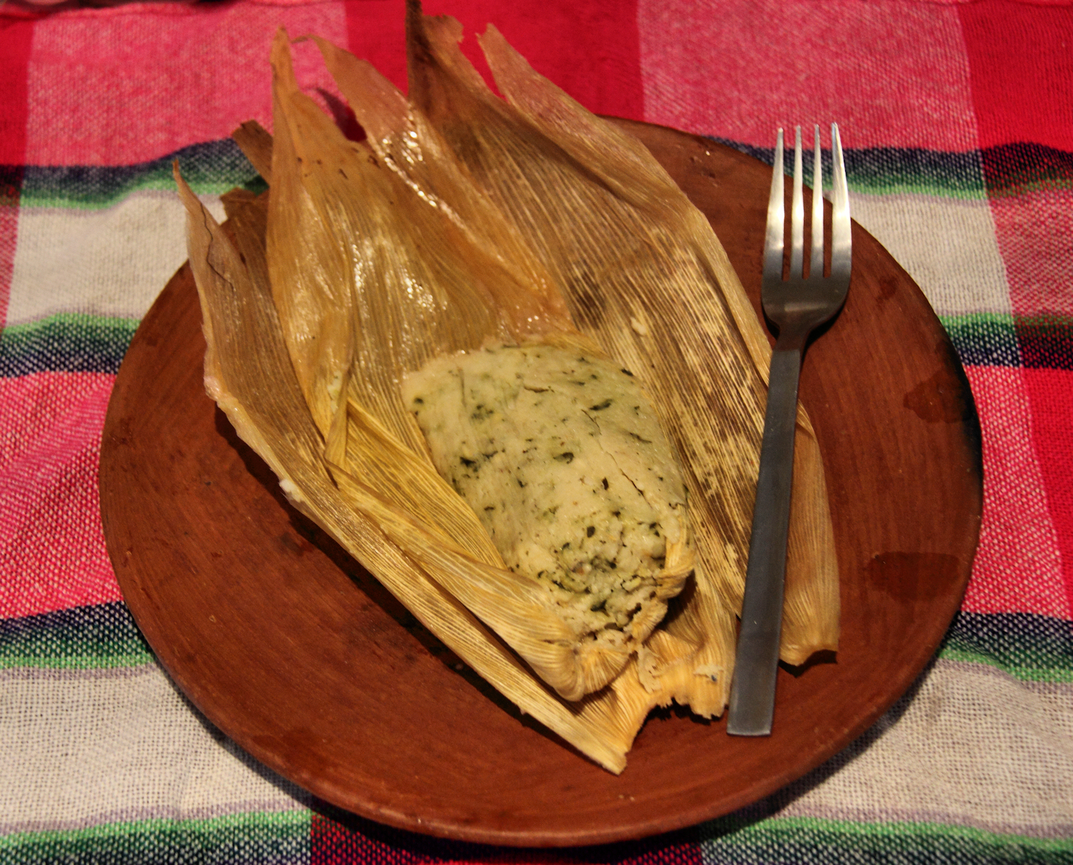 A Chipilín tamal in Oaxaca, Mexico.